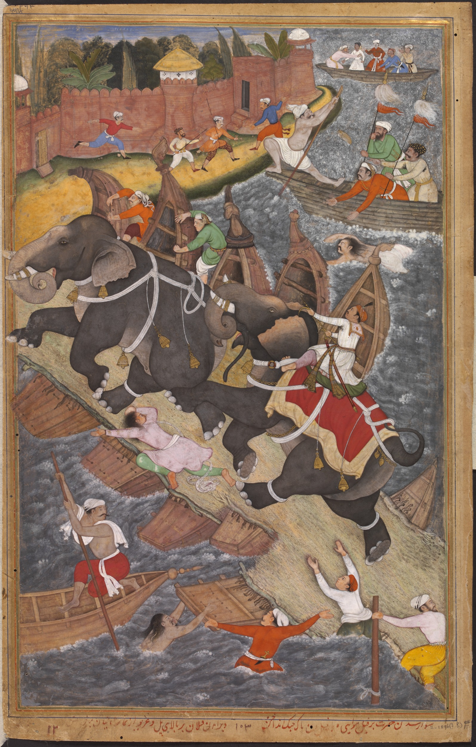 Left half of a double page composition (right half being IS.2:21-1896). Depicts Akbar's adventure on his elephant Hawa'i outside the fort of Agra in 1561. According to Abu'l Fazl, Hawa'i was reputed to be one of the strongest and most difficult elephants to handle, yet Akbar mounted him with ease and pitted him against an equally fierce elephant named Ran Bagha. The illustration shows Akbar, mounted on Hawa'i, pursuing the elephant Ran Bagha across a collapsing bridge of boats over the river Jamuna. The bridge is collapsing under the weight of the elephants and a number of Akbar's servants have jumped into the water to follow the chase.